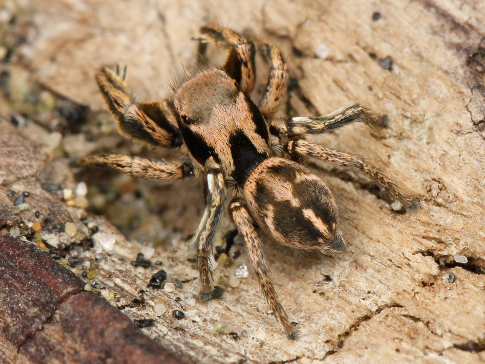 Adult male Habronattus klauseri jumping spider from Lake County, California